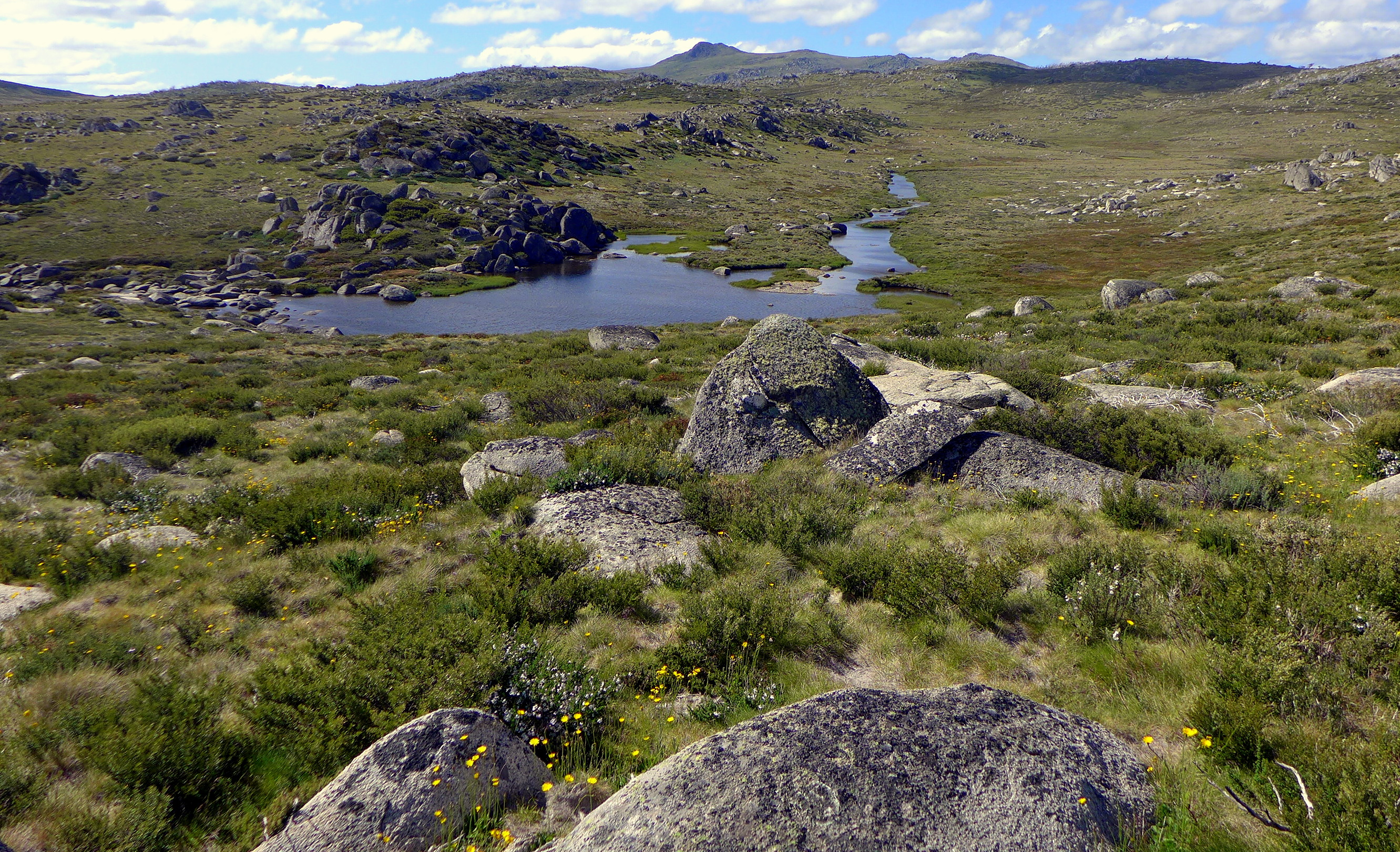 The Jagungal Wilderness area of Kosciuszko National Park, with Mt Jagungal in the distance. The Geehi River is in the middle ground.